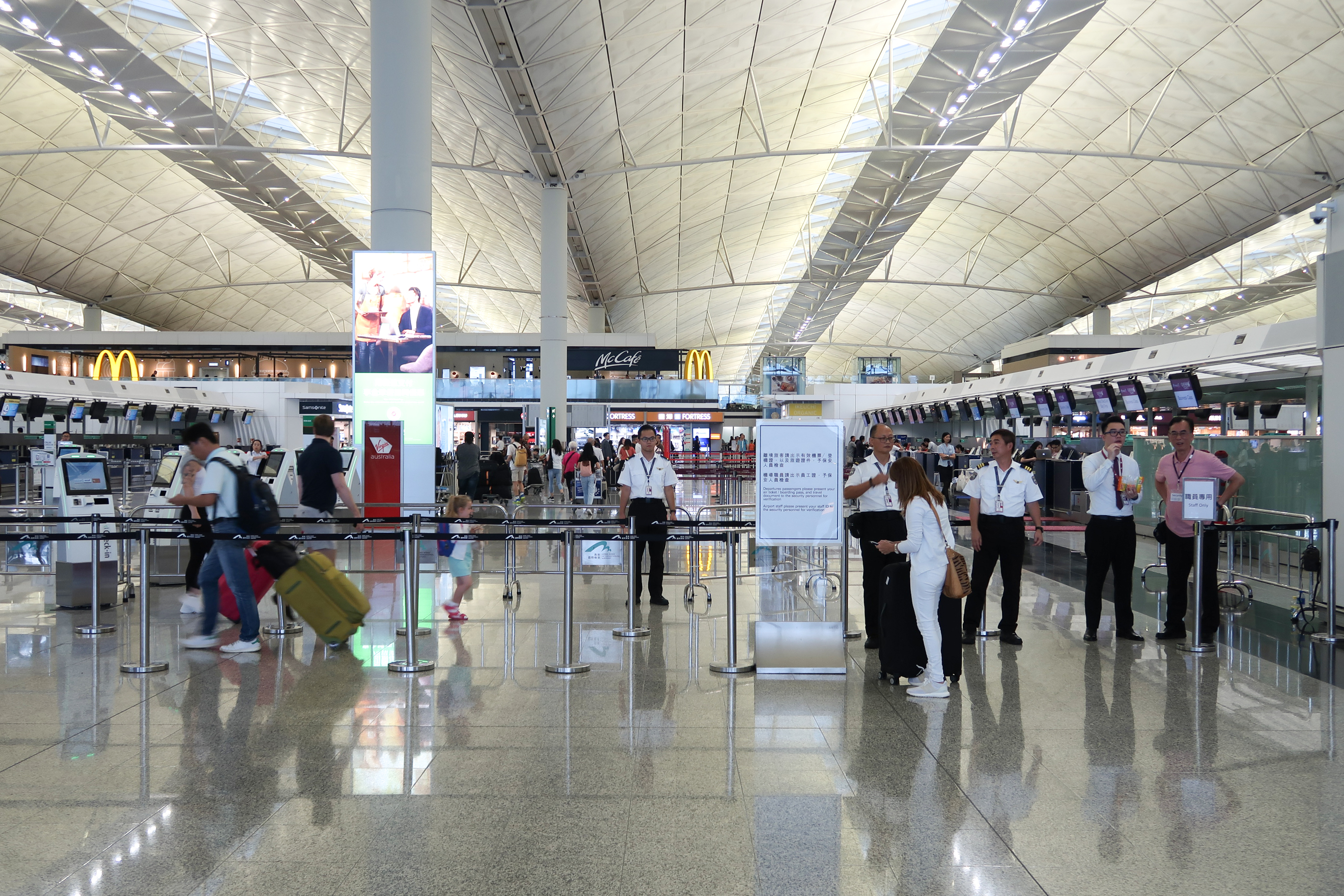 Temporary security checkin in HKIA Terminal 1 Departure lobby